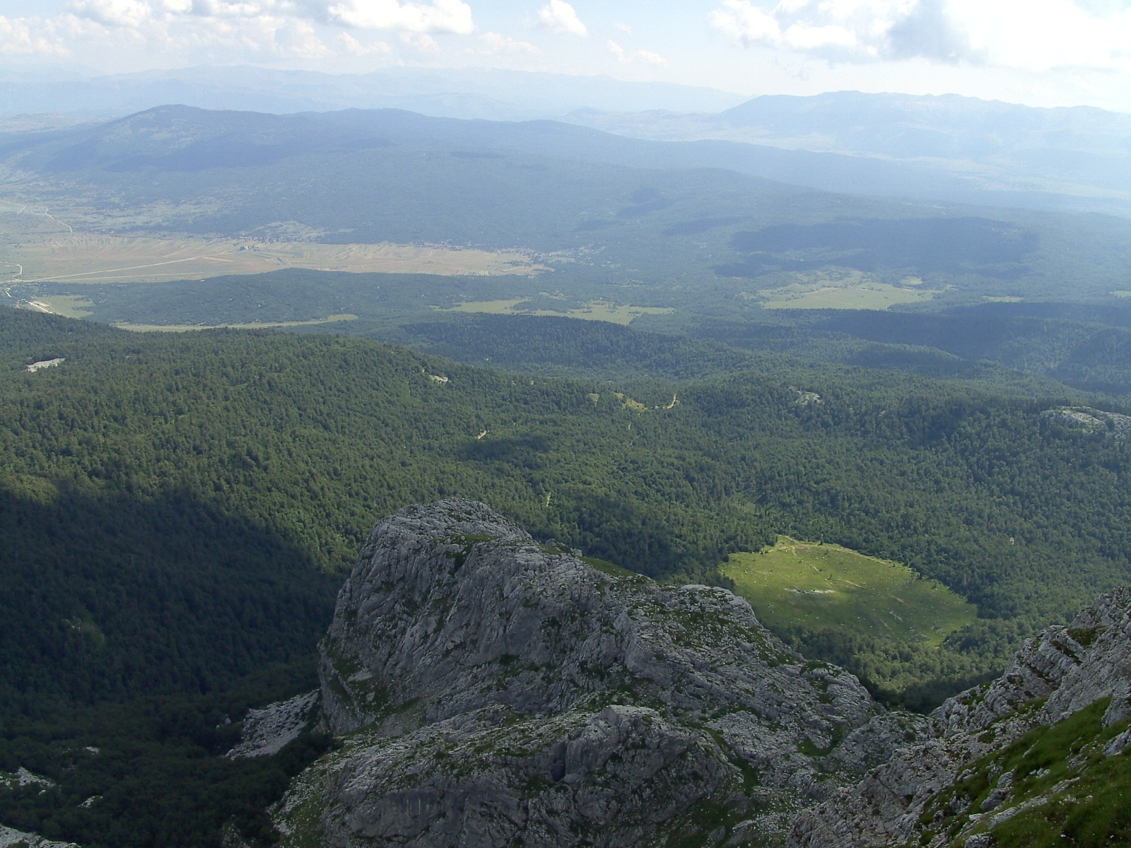 Nevesinjsko polje area in Velež mountains, BiH